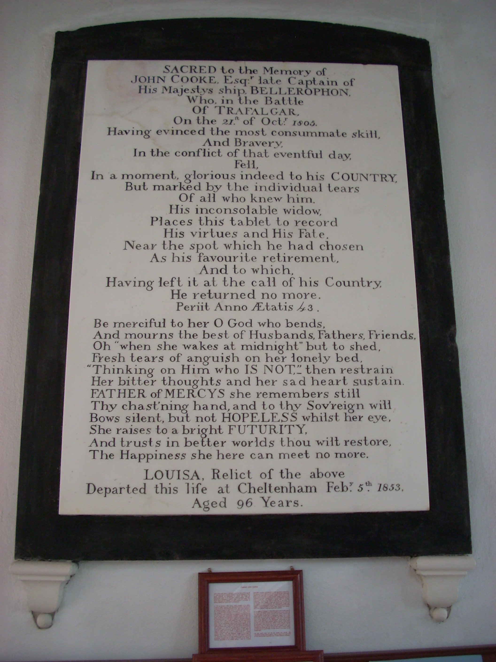 St. Andrew's Church in Donhead St Andrew, Wiltshire, UK. Memorial to Captain John Cooke, commander of HMS Bellerophon, who died in the Battle of Trafalgar.